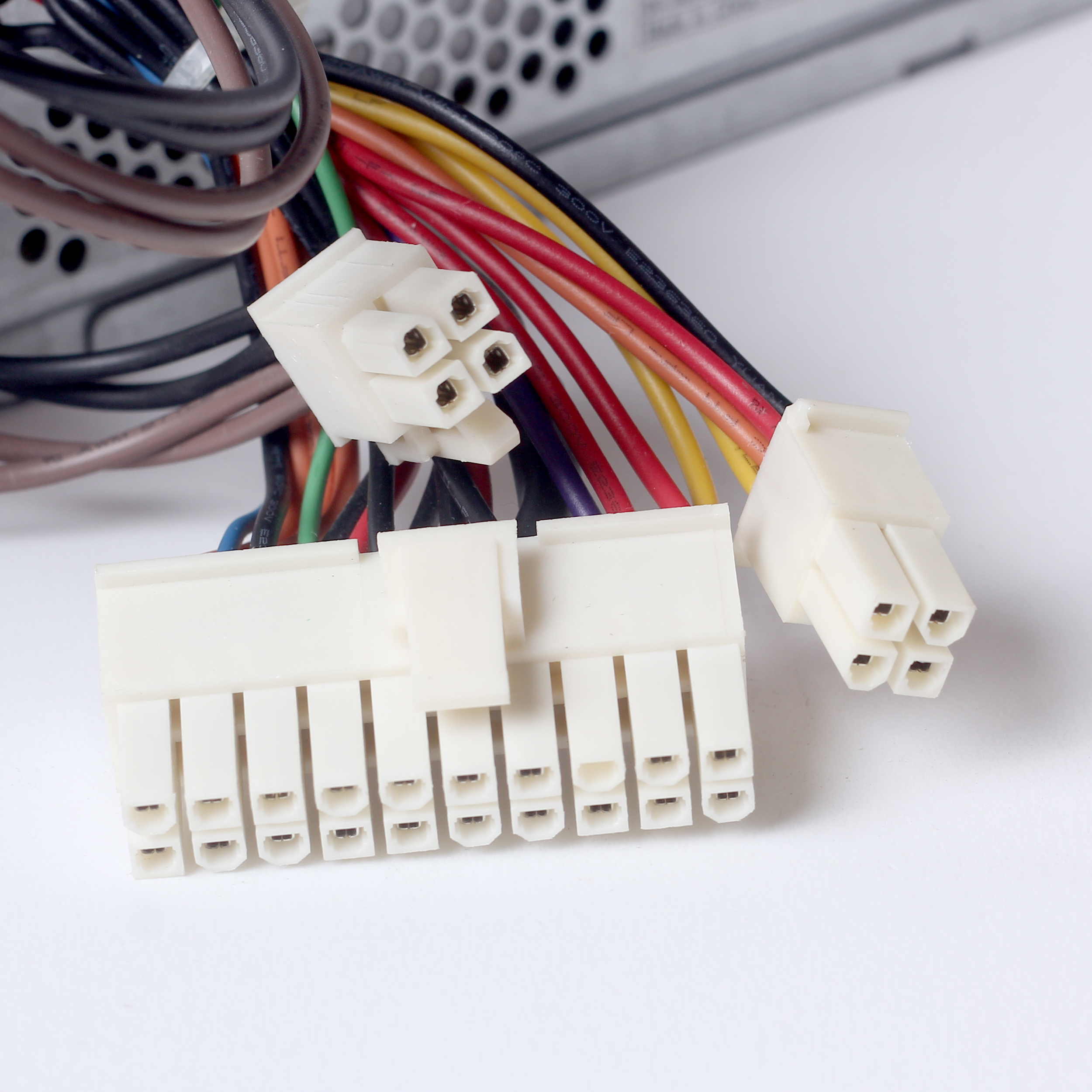 ATX Power connectors.